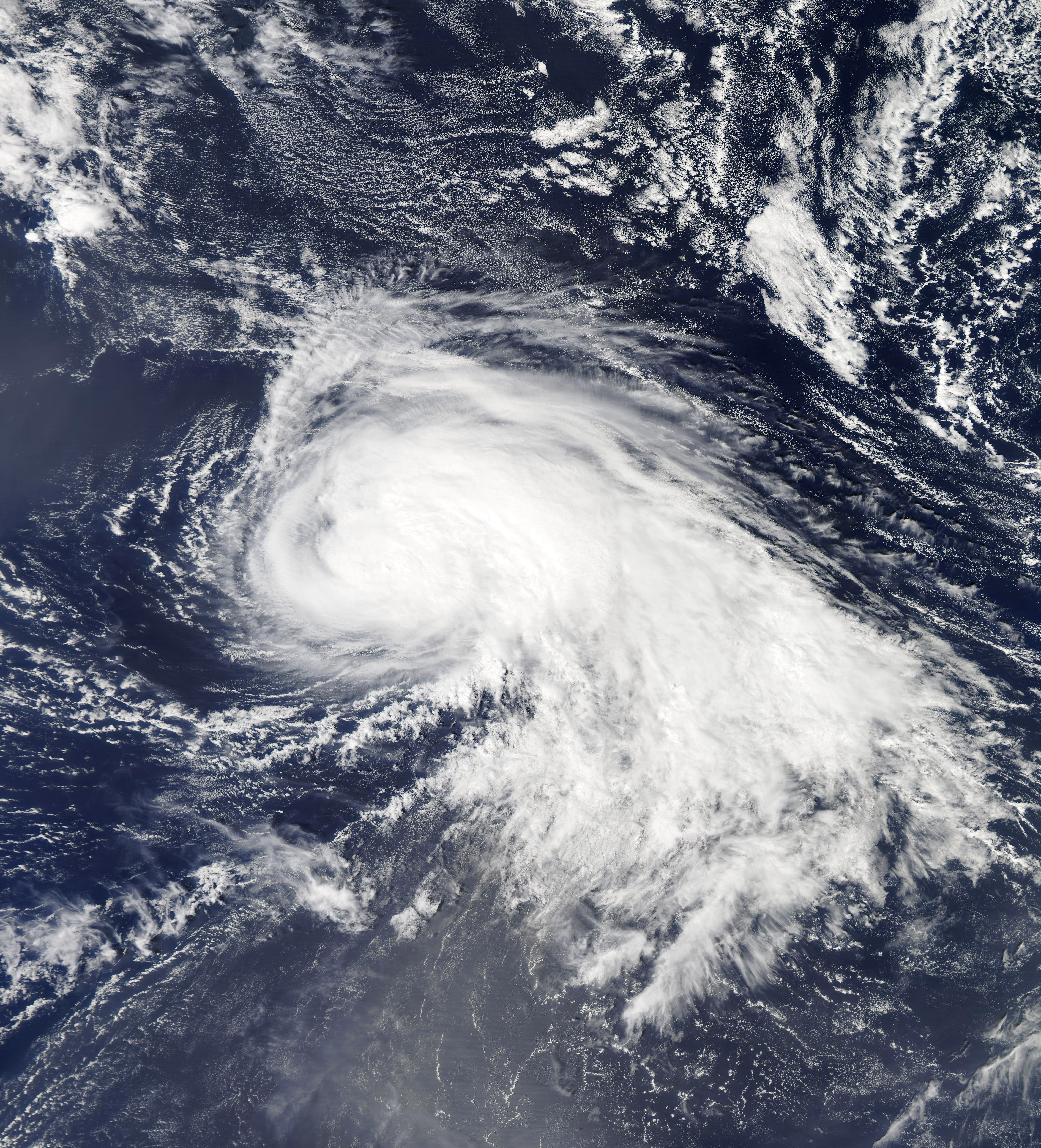 Hurricane Nadine on September 15, 2012